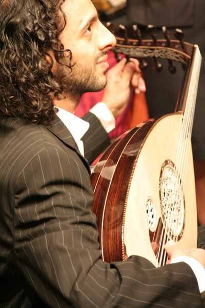 Wissam Joubran at the Louvre Museum.